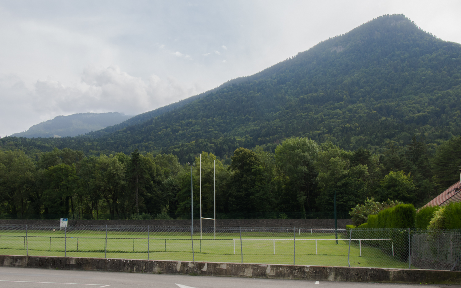 Sight of the Madrid / La Failleuche sport ground and stadium, in Faverges, in Haute-Savoie, France.